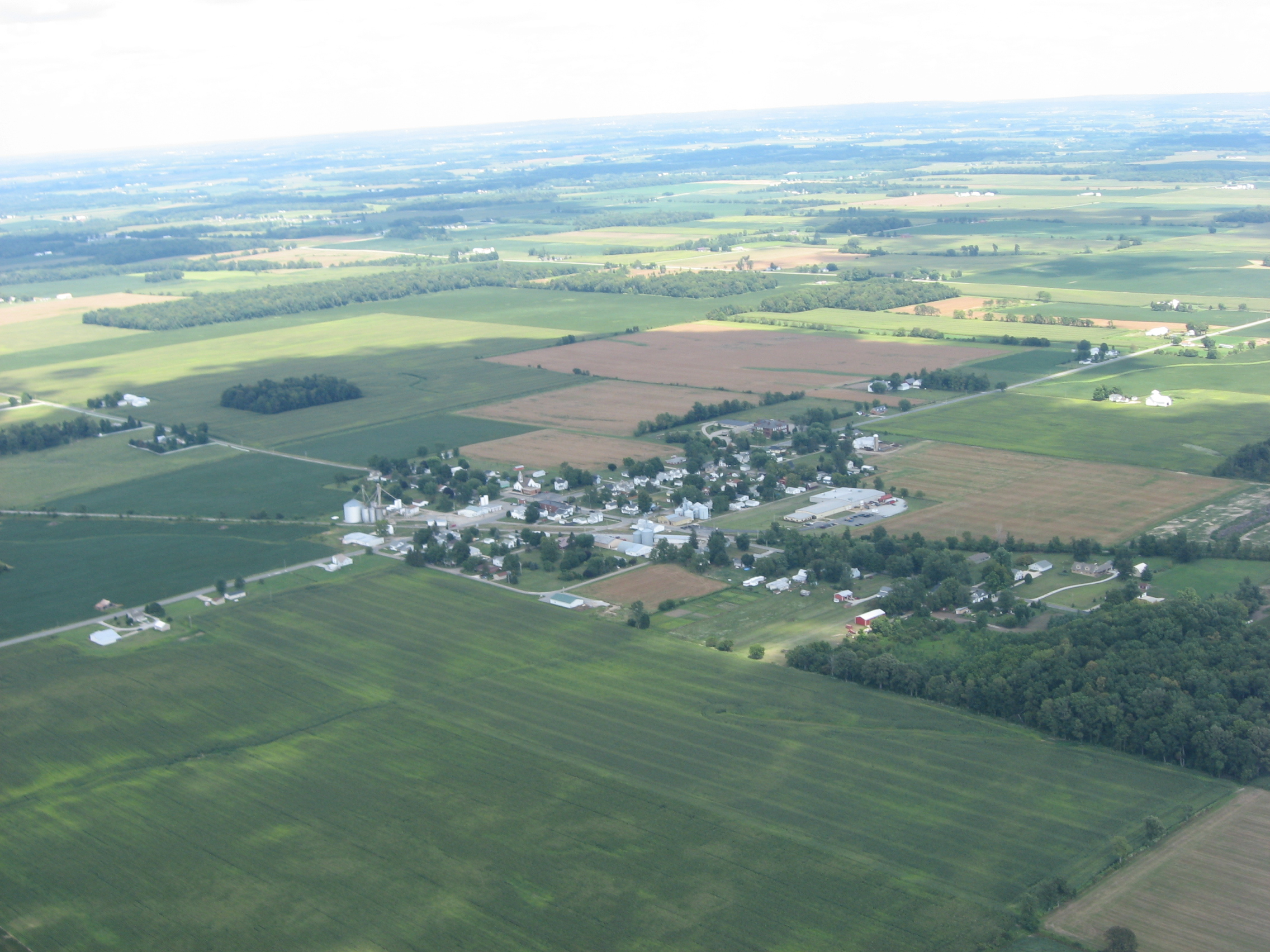 Aerial view of countryside around Rosewood, a small community in Champaign County, Ohio, United States. Picture taken from a Diamond Eclipse light airplane at an altitude of 2,400 feet MSL and a bearing of approximately 70º.